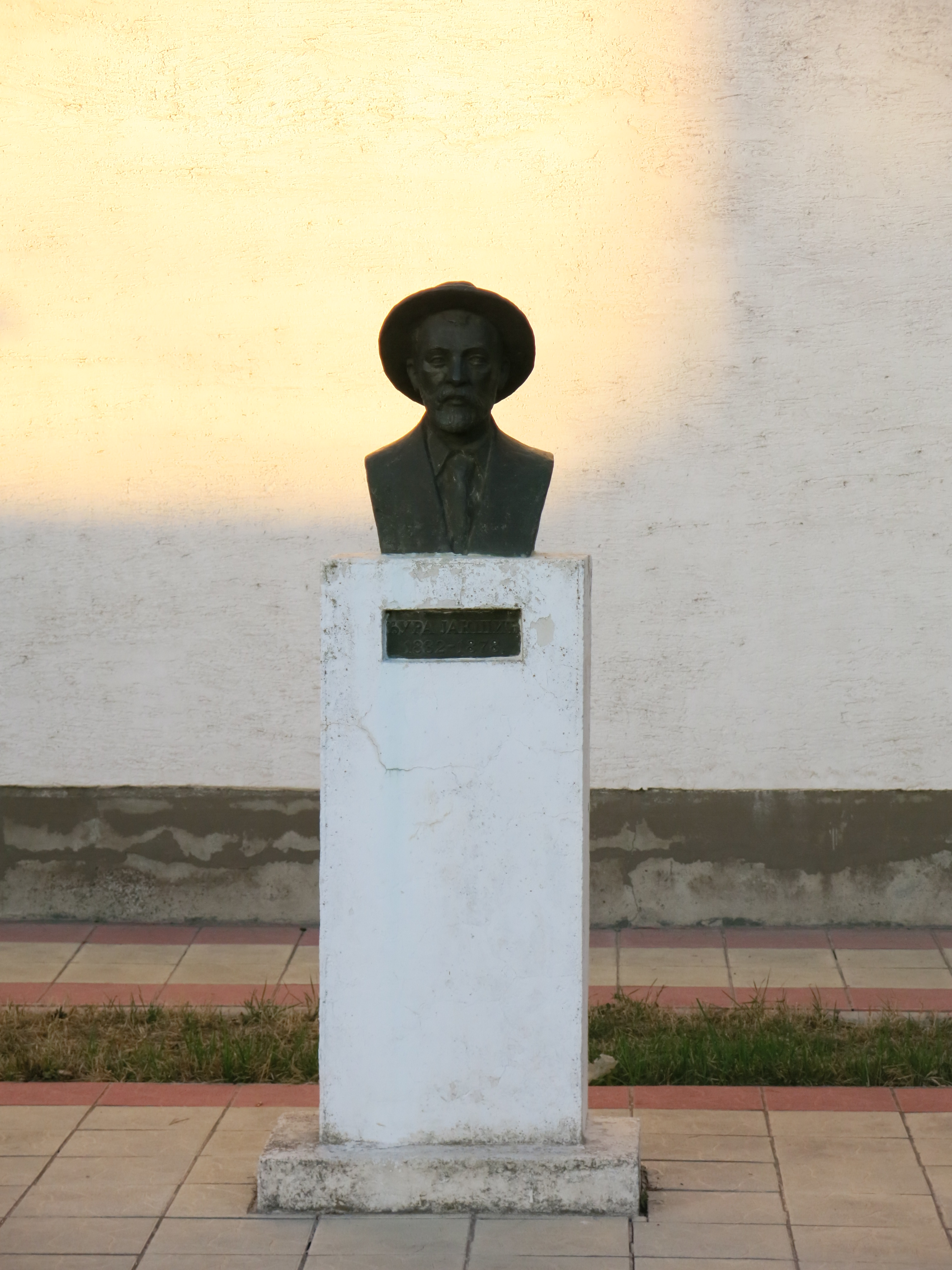 Mala Krsna, Bust of Đura Jakšić